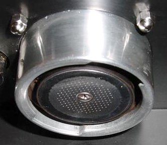 Grouphead.